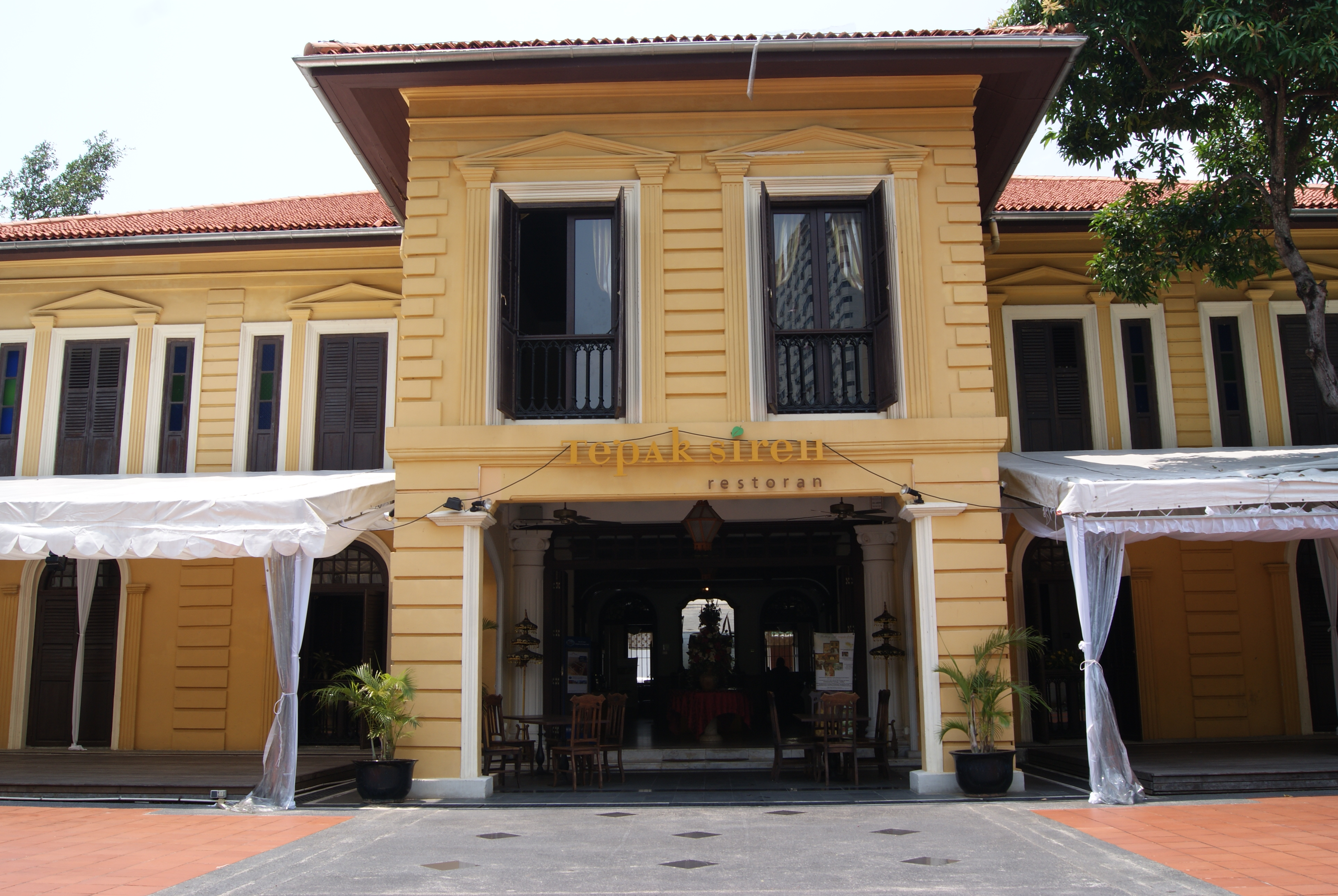 Gedung Kuning at 73 Sultan Gate, Singapore.